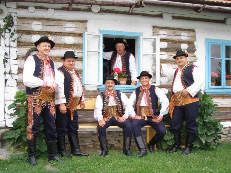 Podegrodzcy Chłopcy - band from Podegrodzie